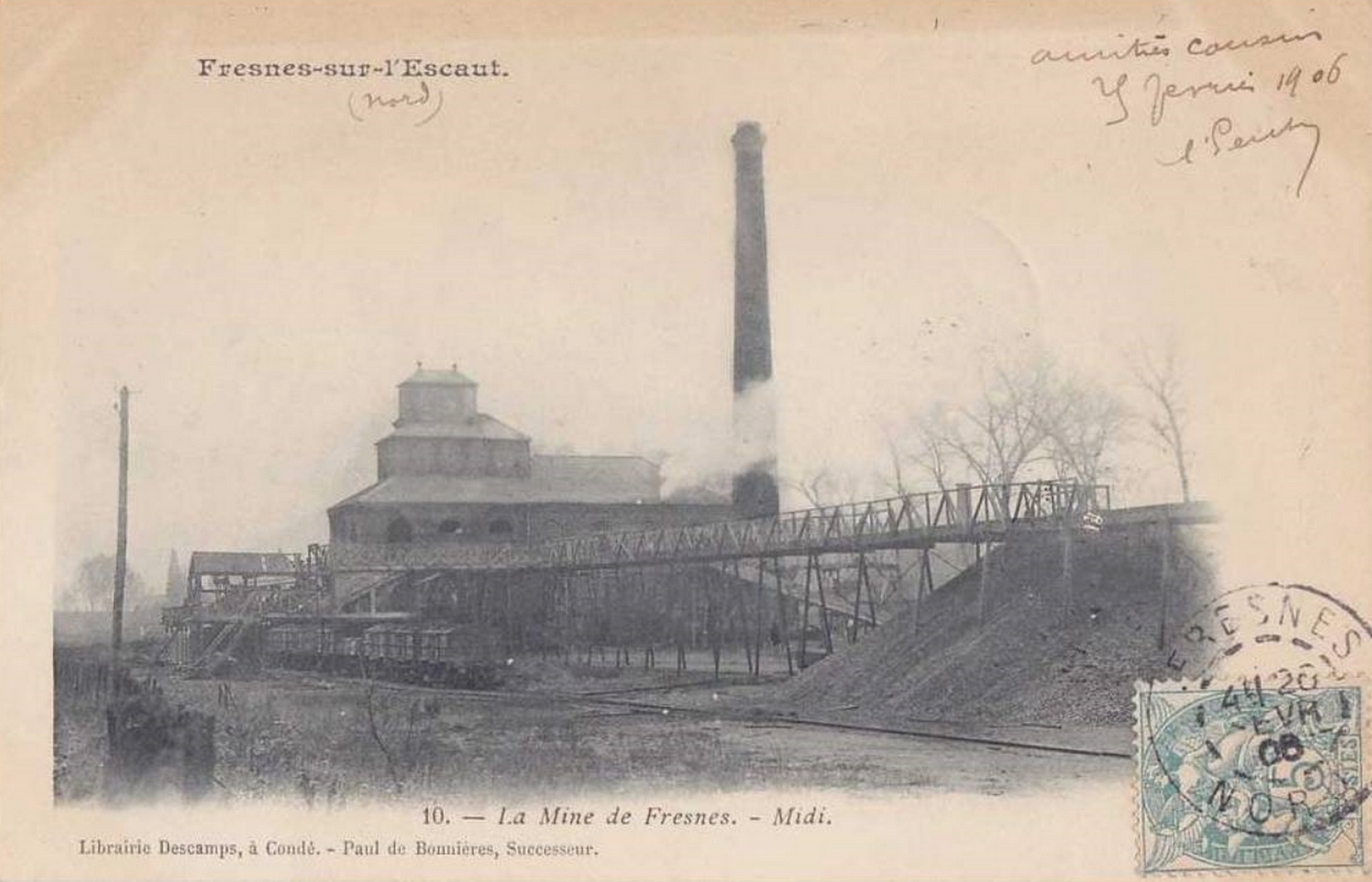 Pit Soult n° 1